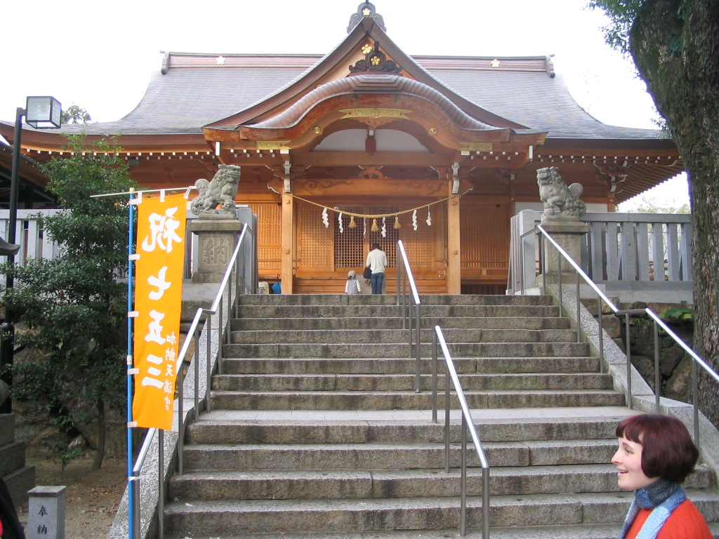 This is a picture of Kanō Tenmangu Shrine in Gifu City, Japan. It was taken in November 2005.